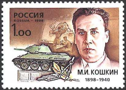 Stamps of Russia Towards the 100th anniversary of M.I.Koshkin (1898-1940), 1998